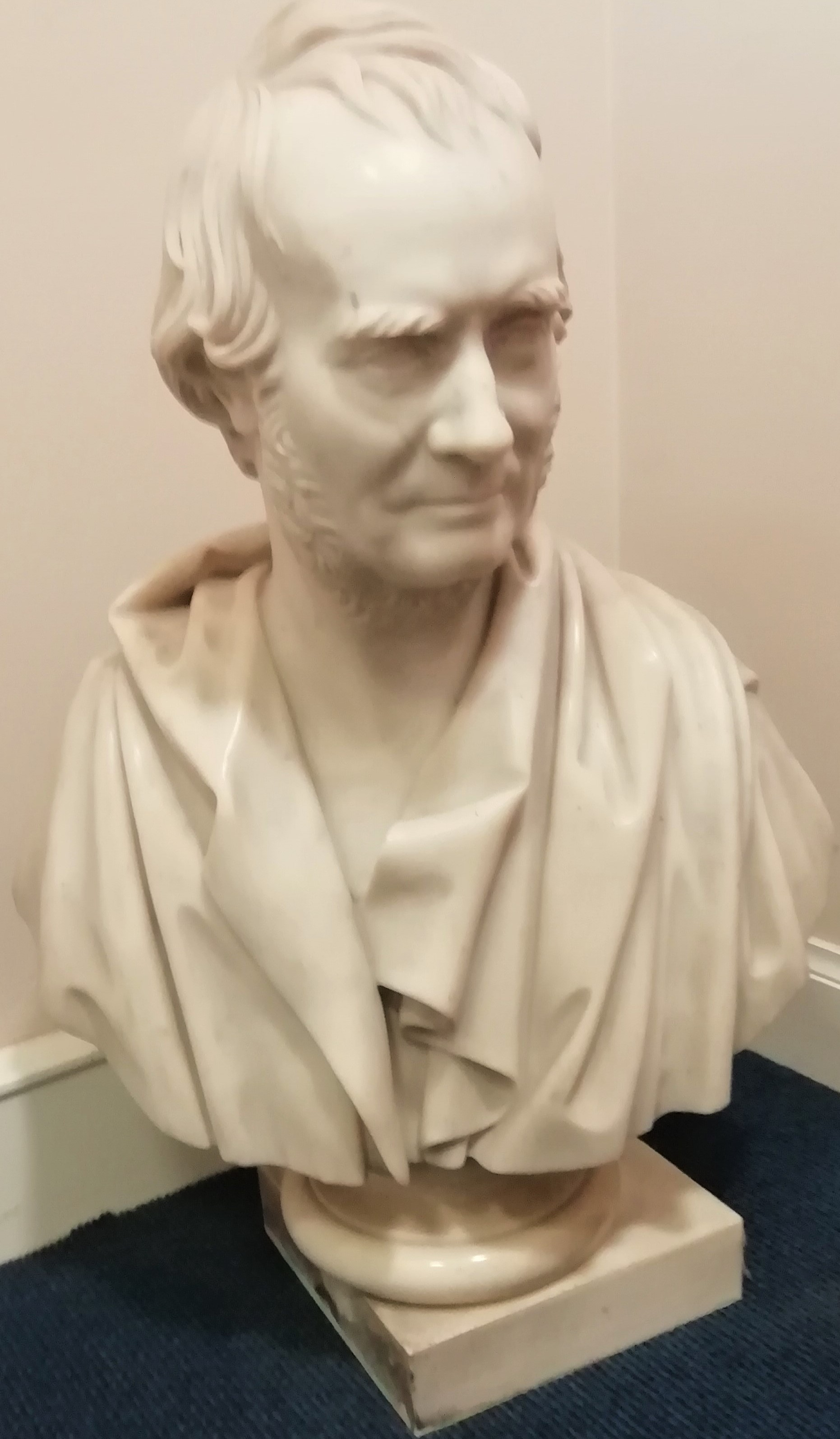 A marble bust of William Cunninghame of Lainshaw, d. 1847, aged 73. Given to the Stewarton Congregational Church where he had been the pastor.